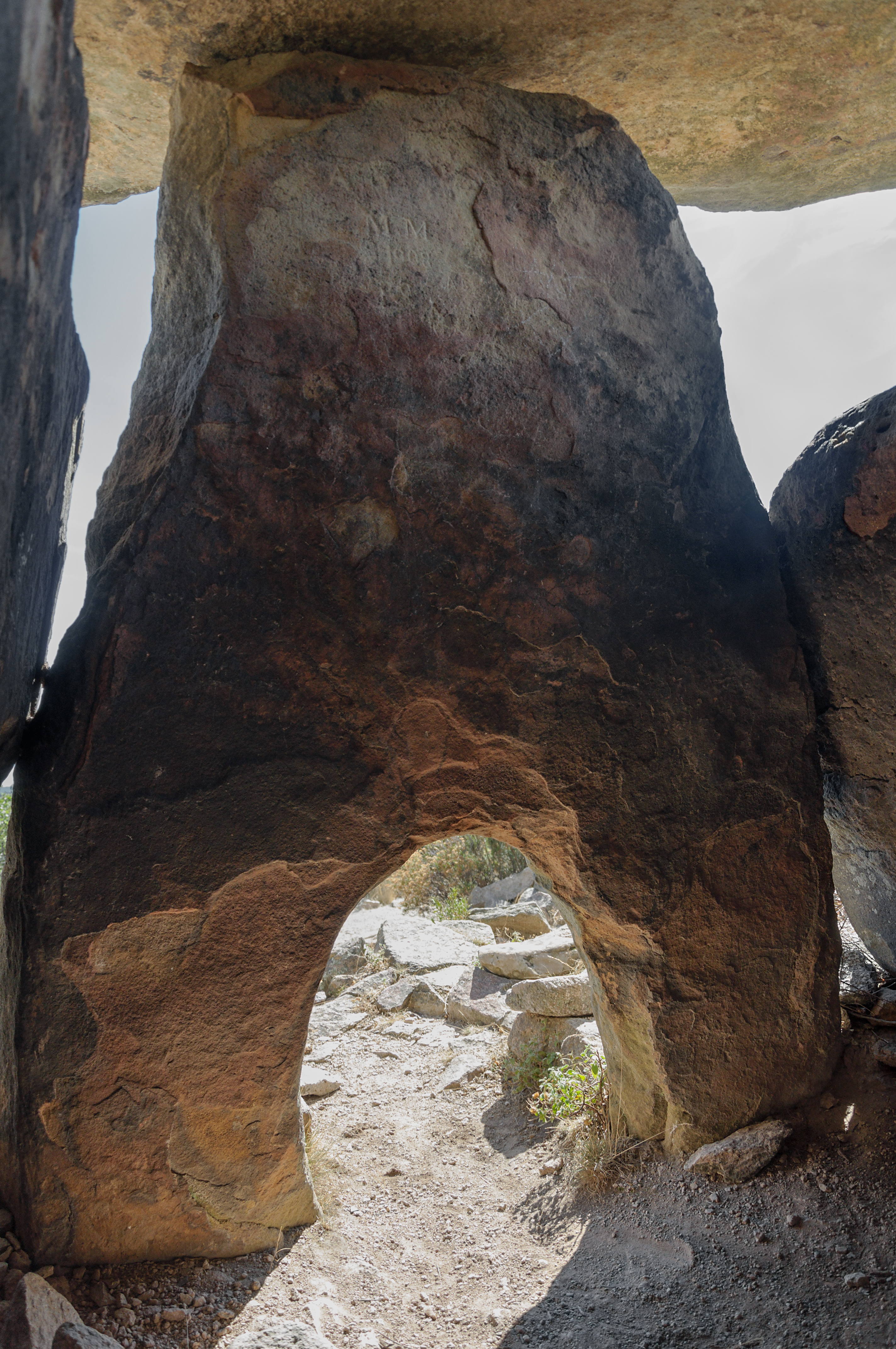 The "oven door" entranceway of the Dolmen de Coste-Rouge in Soumont, Hérault, France, as seen from inside the chamber. .